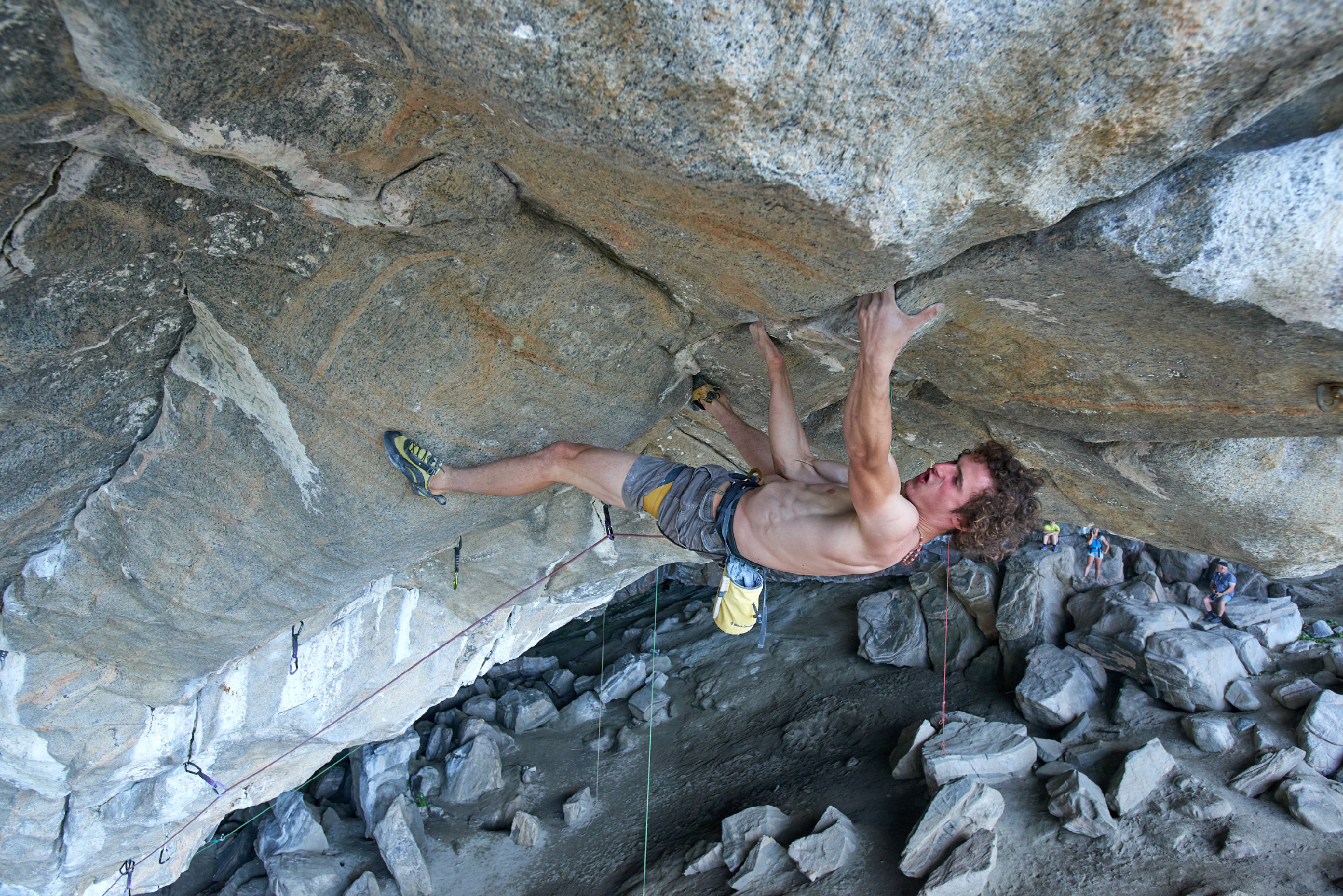 Adam Ondra climbing Silence, 9c. Norway, Flatanger, 2017